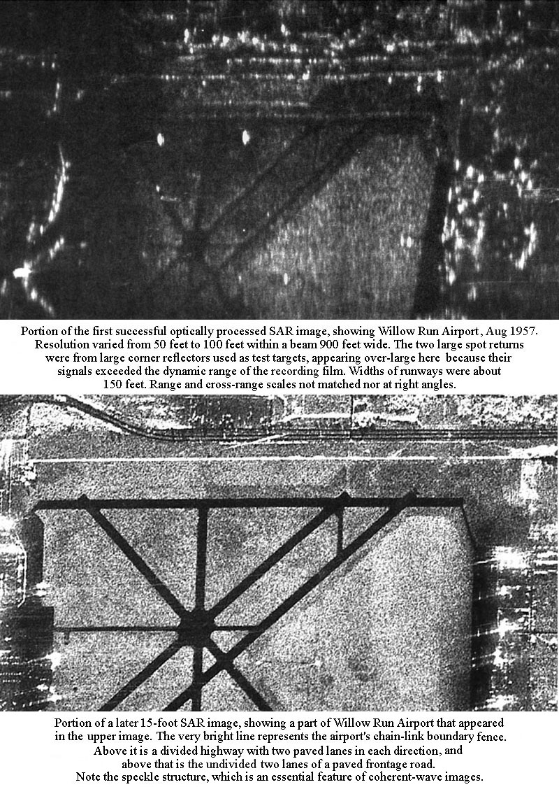 Comparison of earliest Synthetic Aperture Radar image with a later improved-resolution one. Additionally, the data-processing light source had been changed from a mercury lamp to a laser.